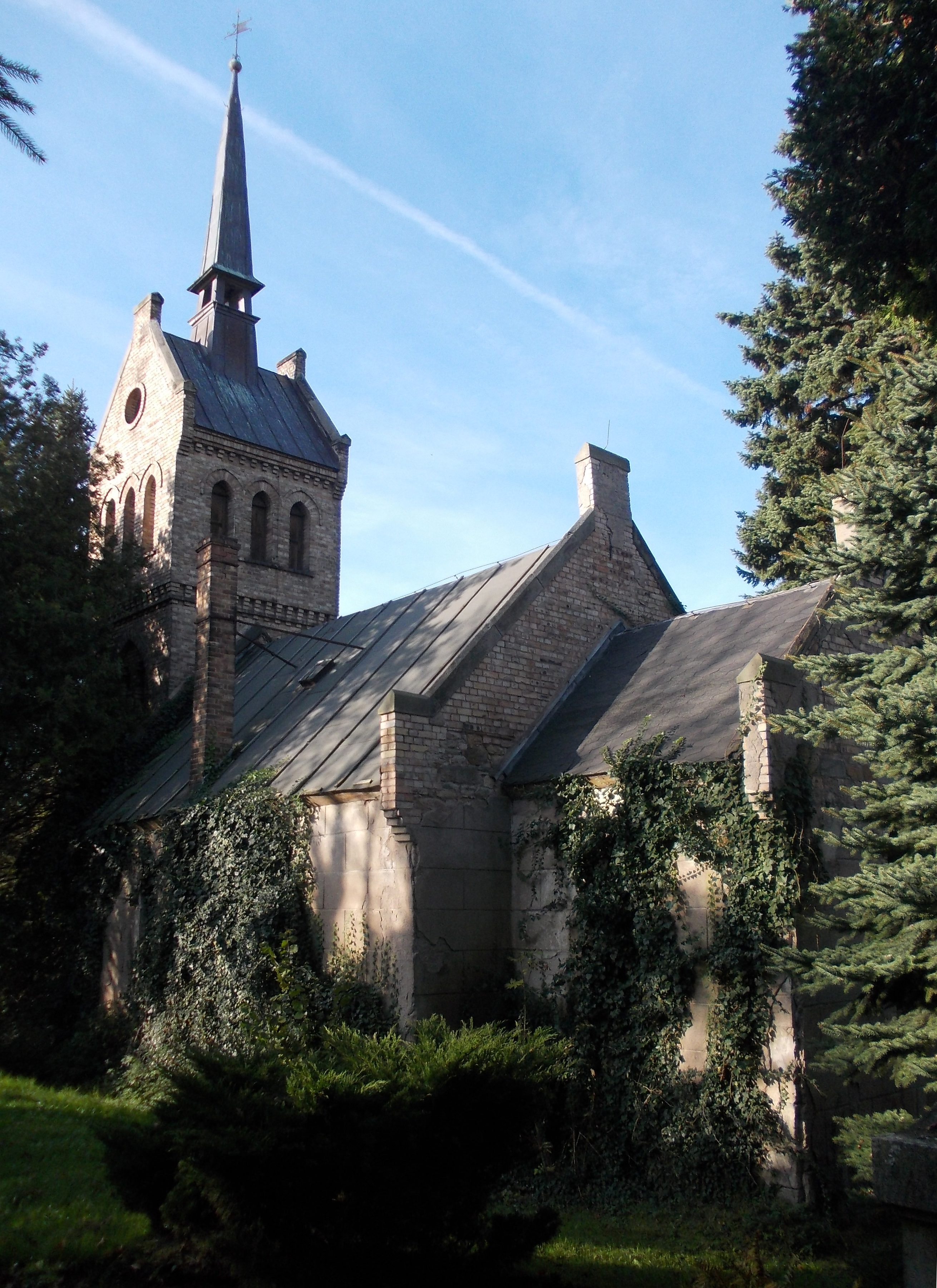 Wils Church (Salzatal, district: Saalekreis, Saxony-Anhalt)